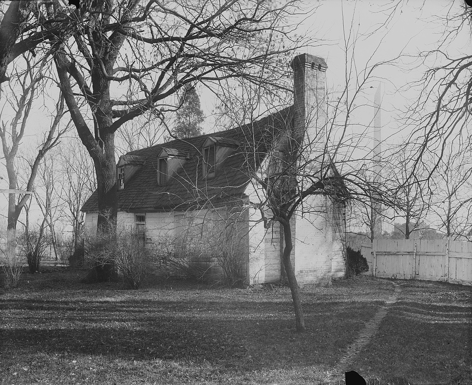 Photograph shows the home of David Burnes (Burns) and his daughter, Marcia (Burns) Van Ness, with the Washington Monument in the background, Washington, D.C.